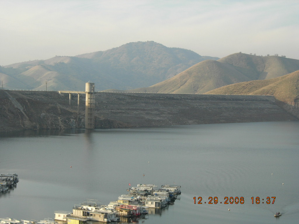 Photo taken by Phil Mieszkowski on December 29, 2006.